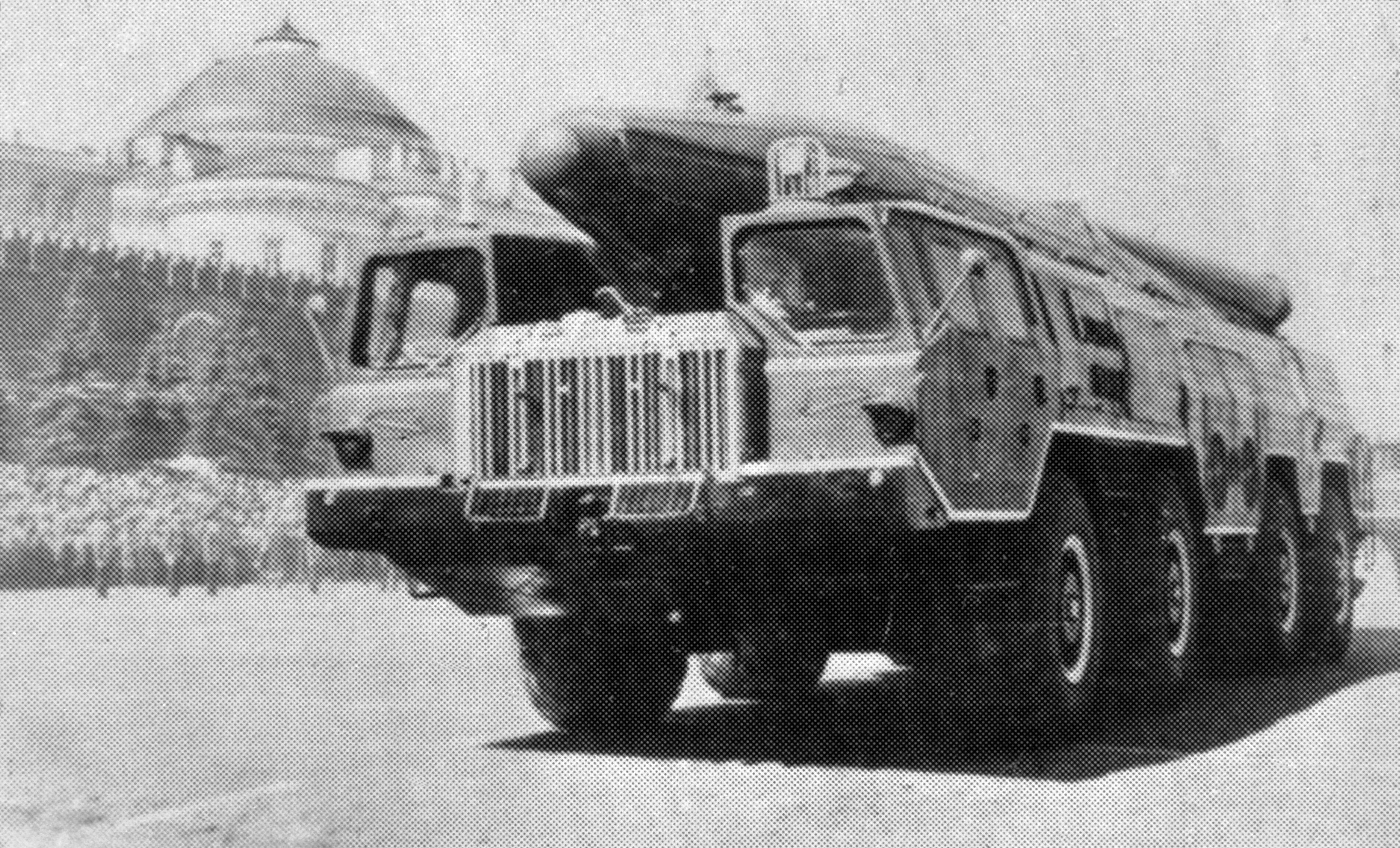 A left front view of a vehicle-mounted Soviet SS-12 Scaleboard surface-to-surface missile.